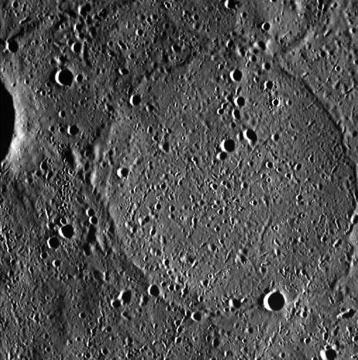 Aristoxenus crater on Mercury. MESSENGER Wide Angle Camera image. North is at lower left. Emission Angle: 9.9 Incidence Angle: 85.0 Latitude: 84.2 Longitude: 343.8 Phase Angle: 75.1